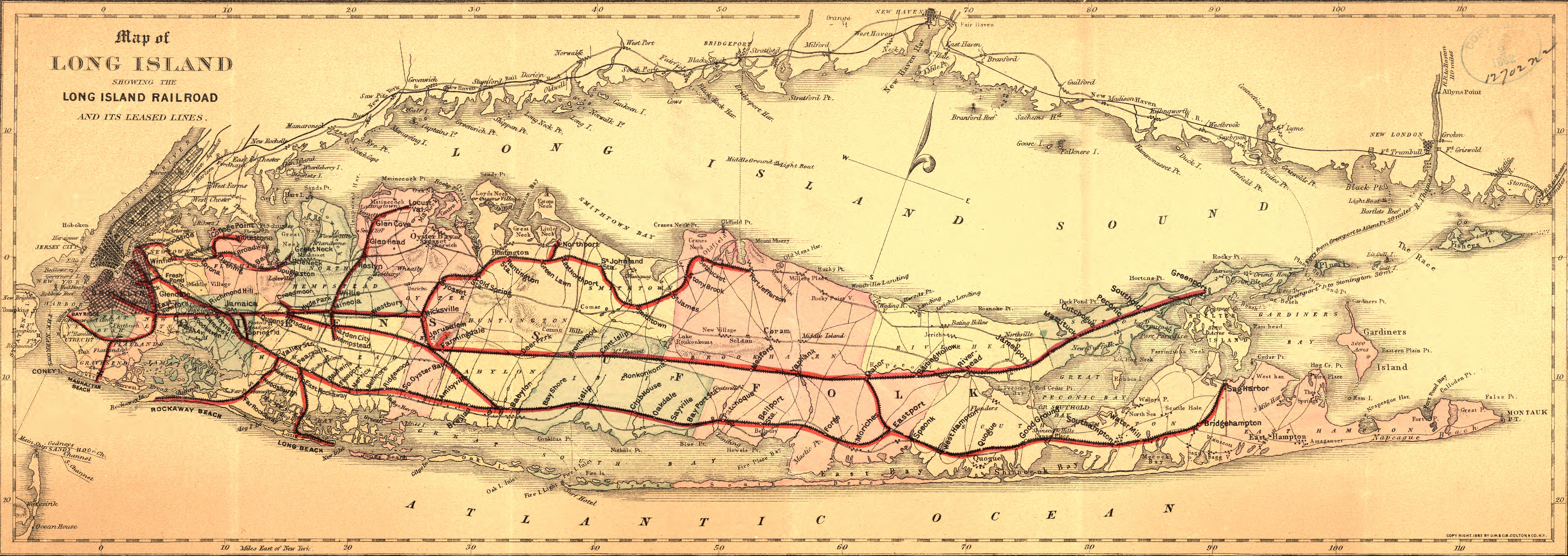 Map of Long Island showing the Long Island Railroad and its leased lines. Also shows drainage, cities and towns, township and county boundaries, and the railroad network.